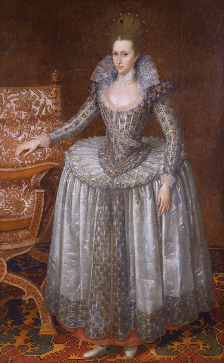 Anne of Denmark (1574-1619), wearing a white farthingale dress and pearl sash